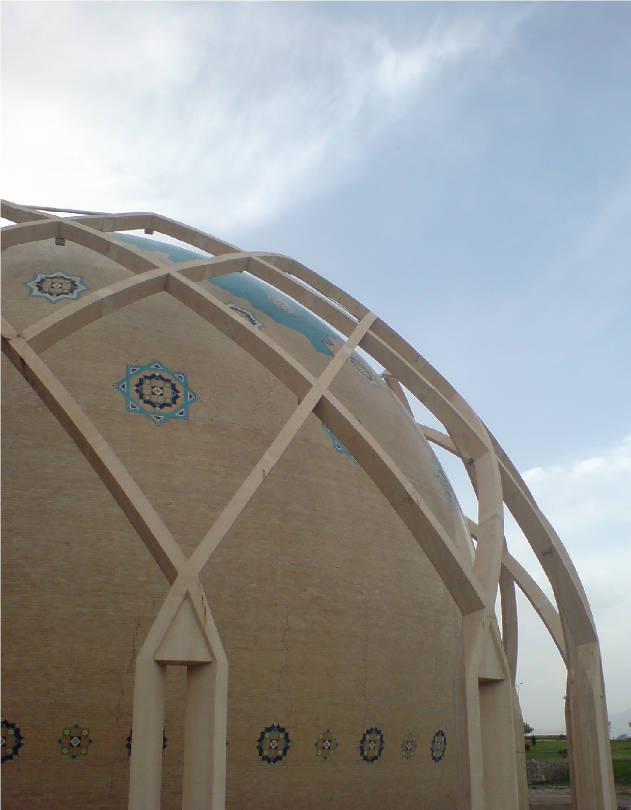 Mercedes and Bmw Symbol On a garage door at Nishapur.